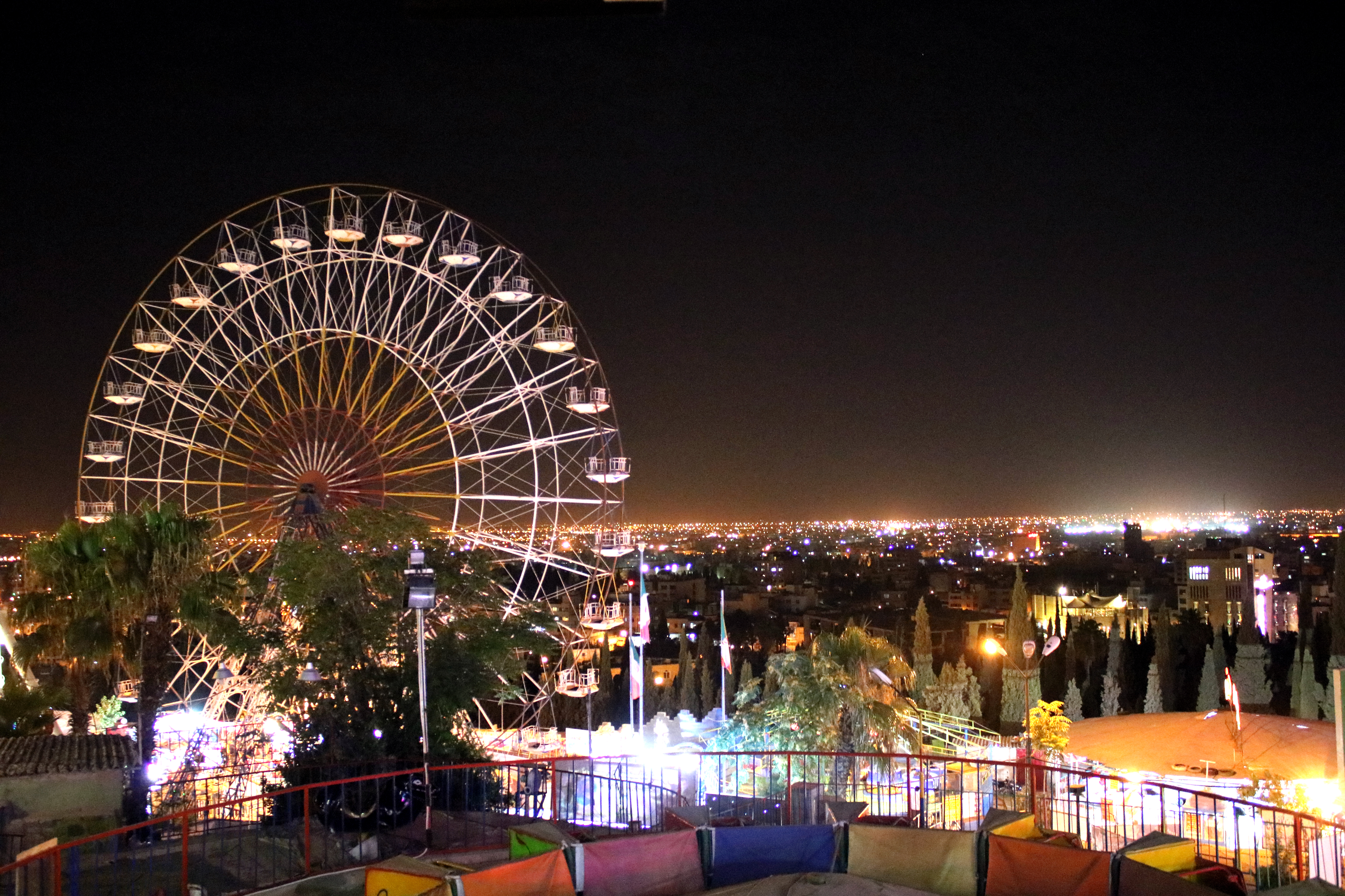 Luna Park, Shiraz